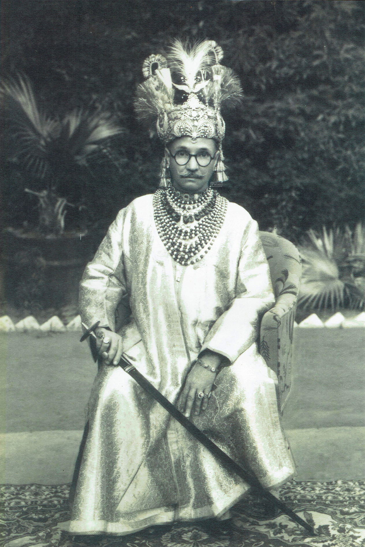 Rajarshi Rao Saheb Udai Singh ji Patan